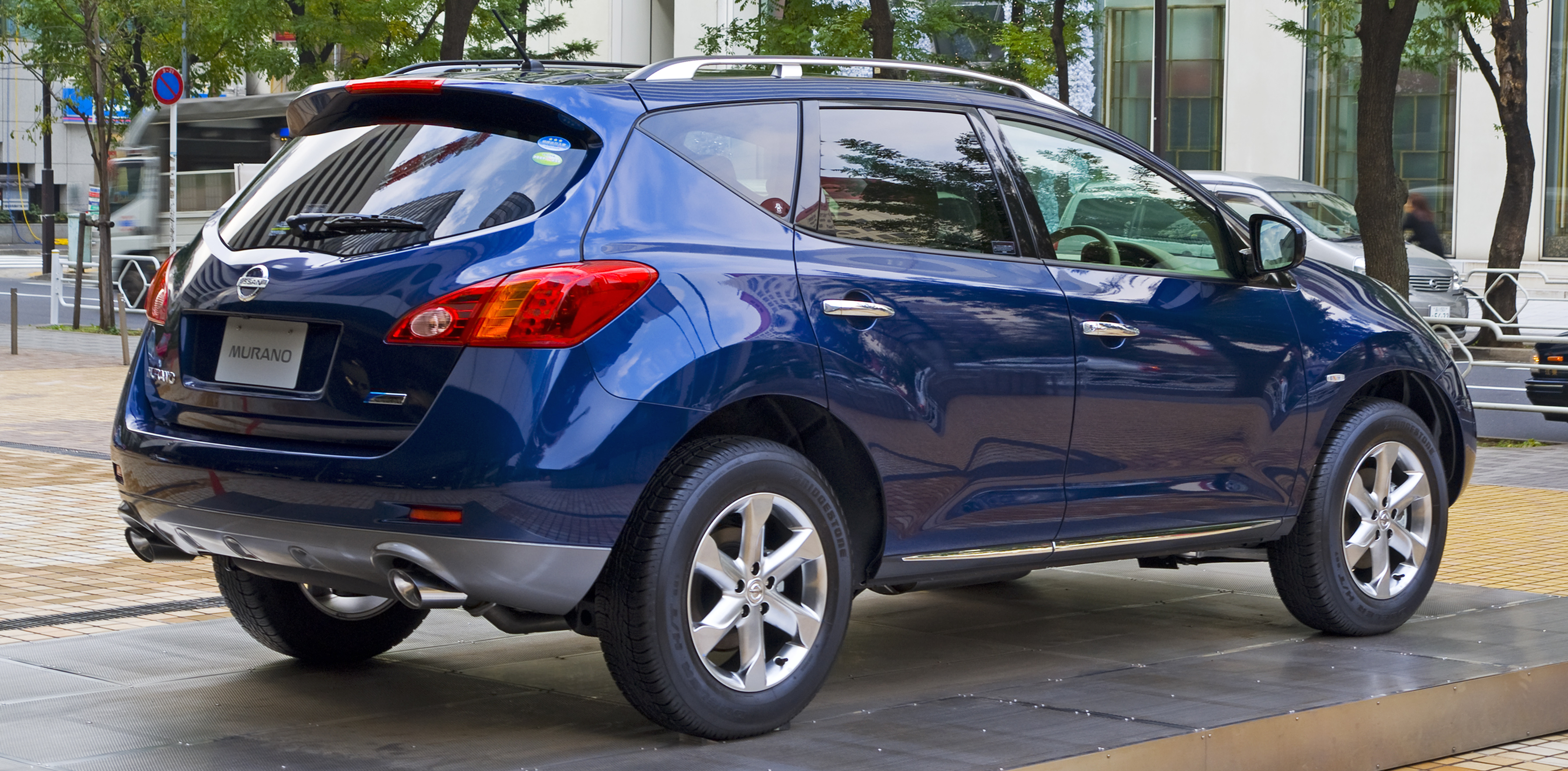 2008 2nd genaration Nissan Murano photographed in Nissan Gallery (Chuo, Tokyo)